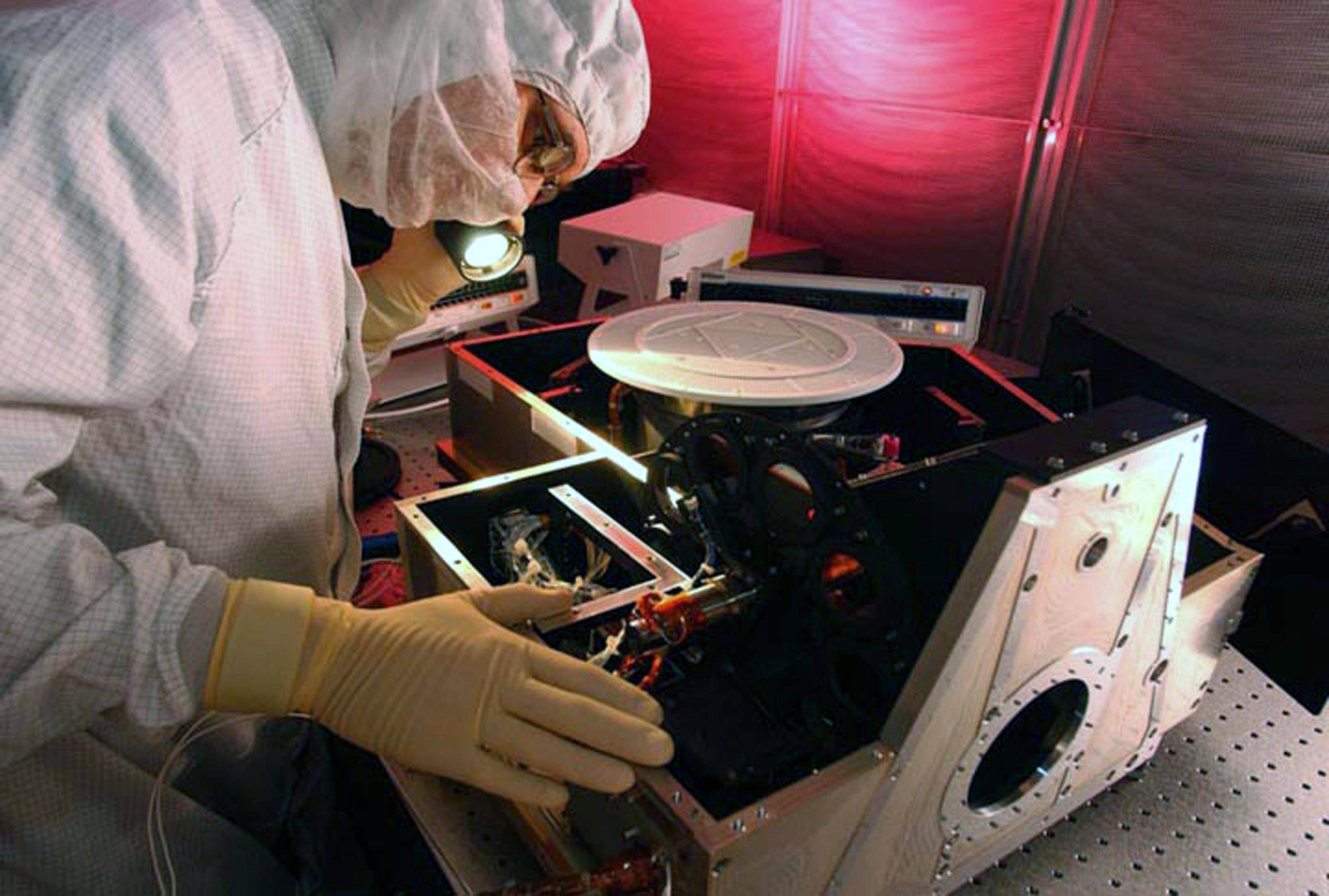 At Ball Aerospace in Boulder, Colo., the infrared (IR) spectrometer for the Deep Impact flyby spacecraft is inspected in the instrument assembly area in the Fisher Assembly building clean room. Deep Impact will probe beneath the surface of Comet Tempel 1 on July 4, 2005, when the comet is 83 million miles from Earth, and reveal the secrets of its interior. After releasing a 3- by 3-foot projectile to crash onto the surface, Deep Impact’s flyby spacecraft will collect pictures and data of how the crater forms, measuring the crater’s depth and diameter, as well as the composition of the interior of the crater and any material thrown out, and determining the changes in natural outgassing produced by the impact. The spectrometer is part of the High Resolution Instrument in the spacecraft. This imager will be aimed at the ejected matter as the crater forms, and an infrared "fingerprint" of the material from inside of the comet's nucleus will be taken. It will send the data back to Earth through the antennas of the Deep Space Network. Deep Impact is a NASA Discovery mission. Launch of Deep Impact is scheduled for Jan. 12 from Launch Pad 17-B, Cape Canaveral Air Force Station, Fla.